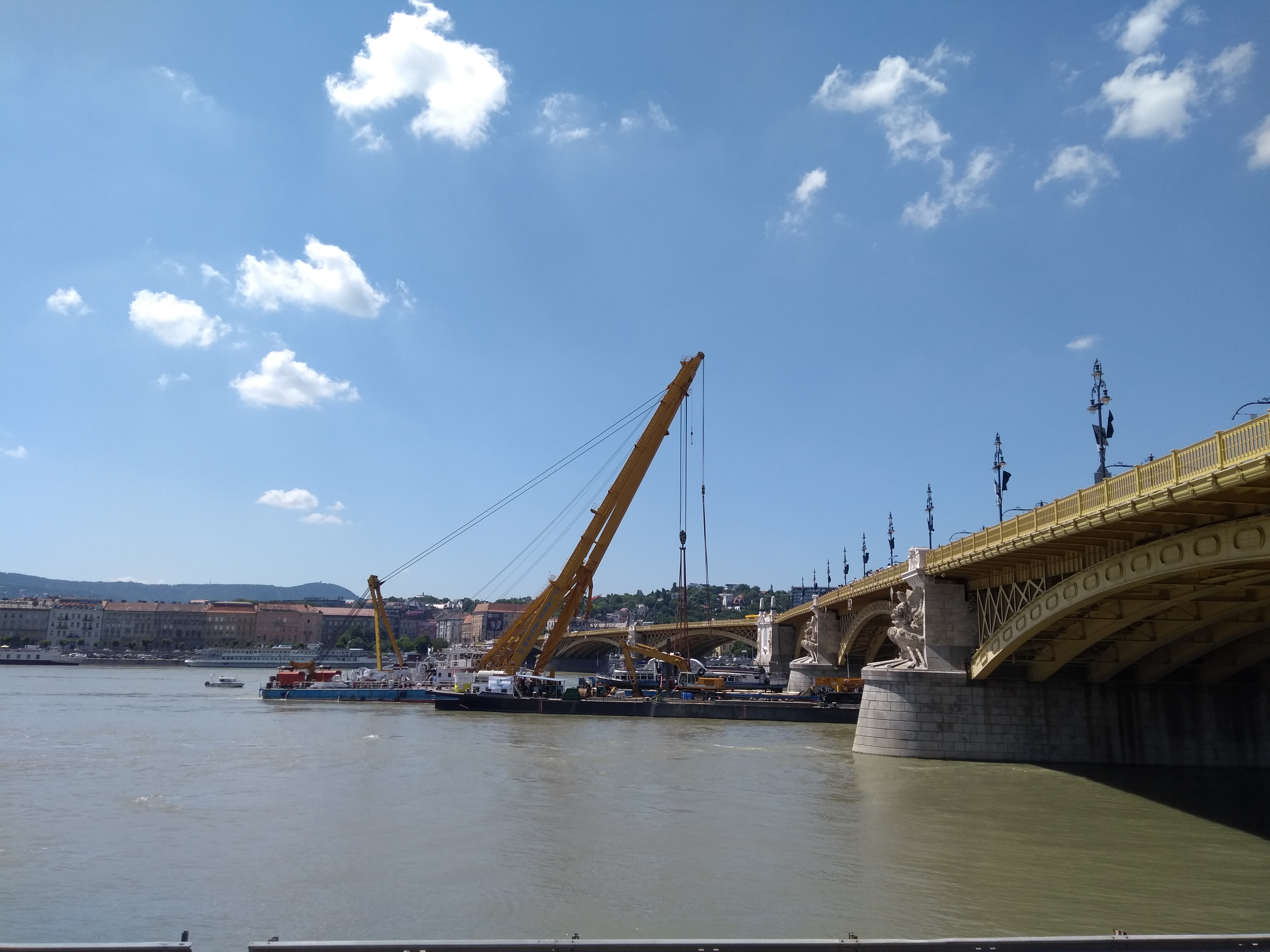 Clark Ádám crane vessel during the raising of Hableány